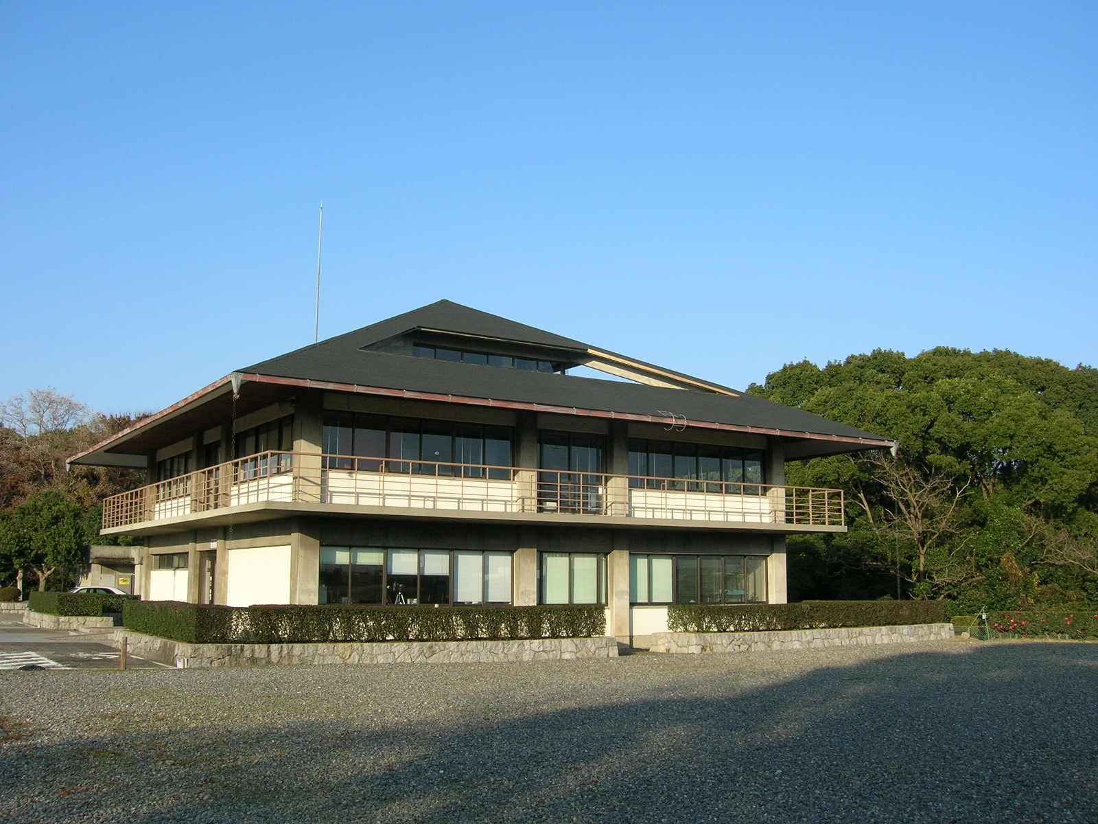 Aichiken Yatomi Yachoen (Yatomi Wild Bird Sanctuary), Main hall. Loc: Yatomi city, Aichi Prefecture, Japan. 愛知県弥富野鳥園・本館 撮影場所 愛知県弥富市